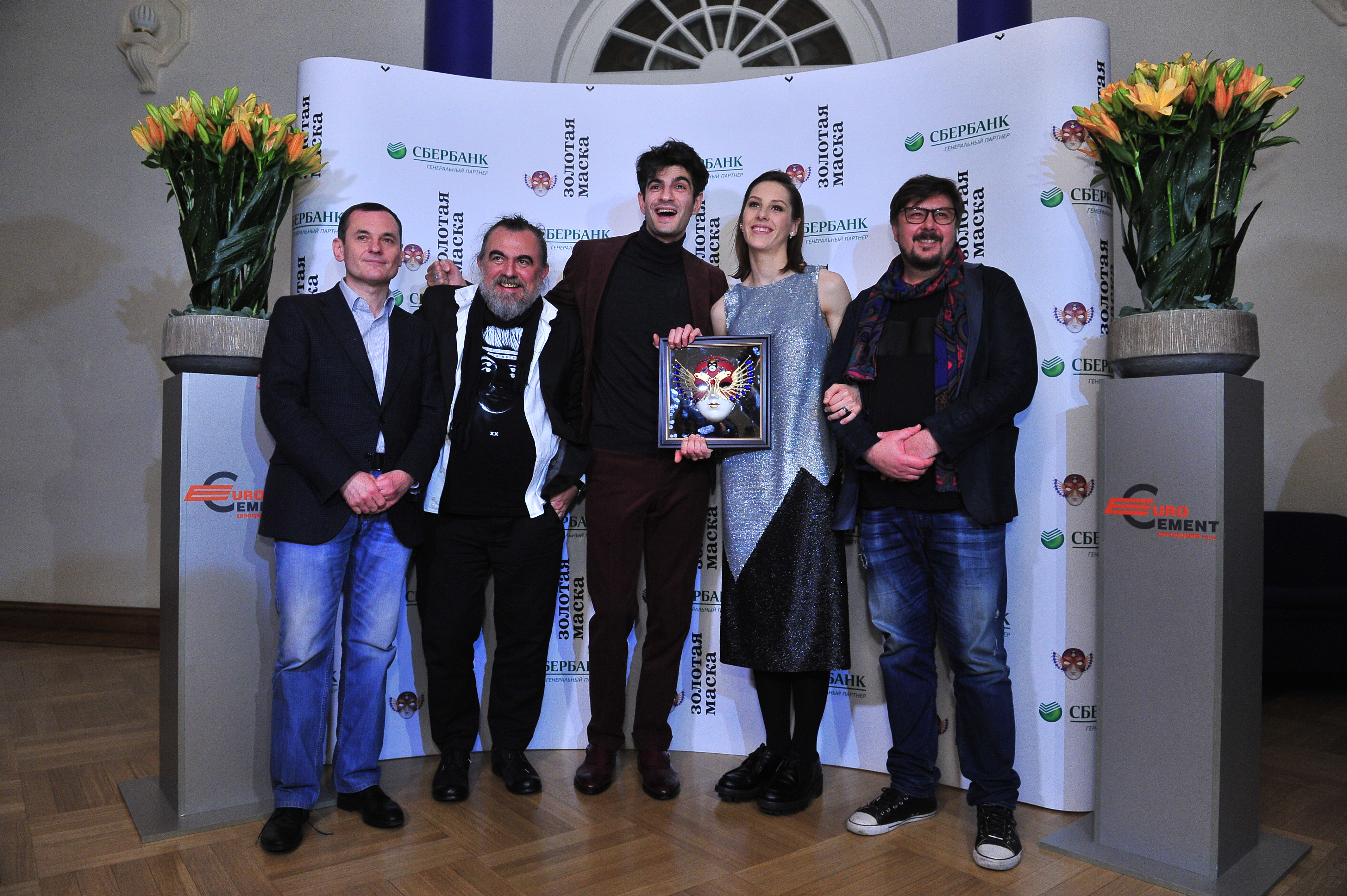 Golden Mask Award